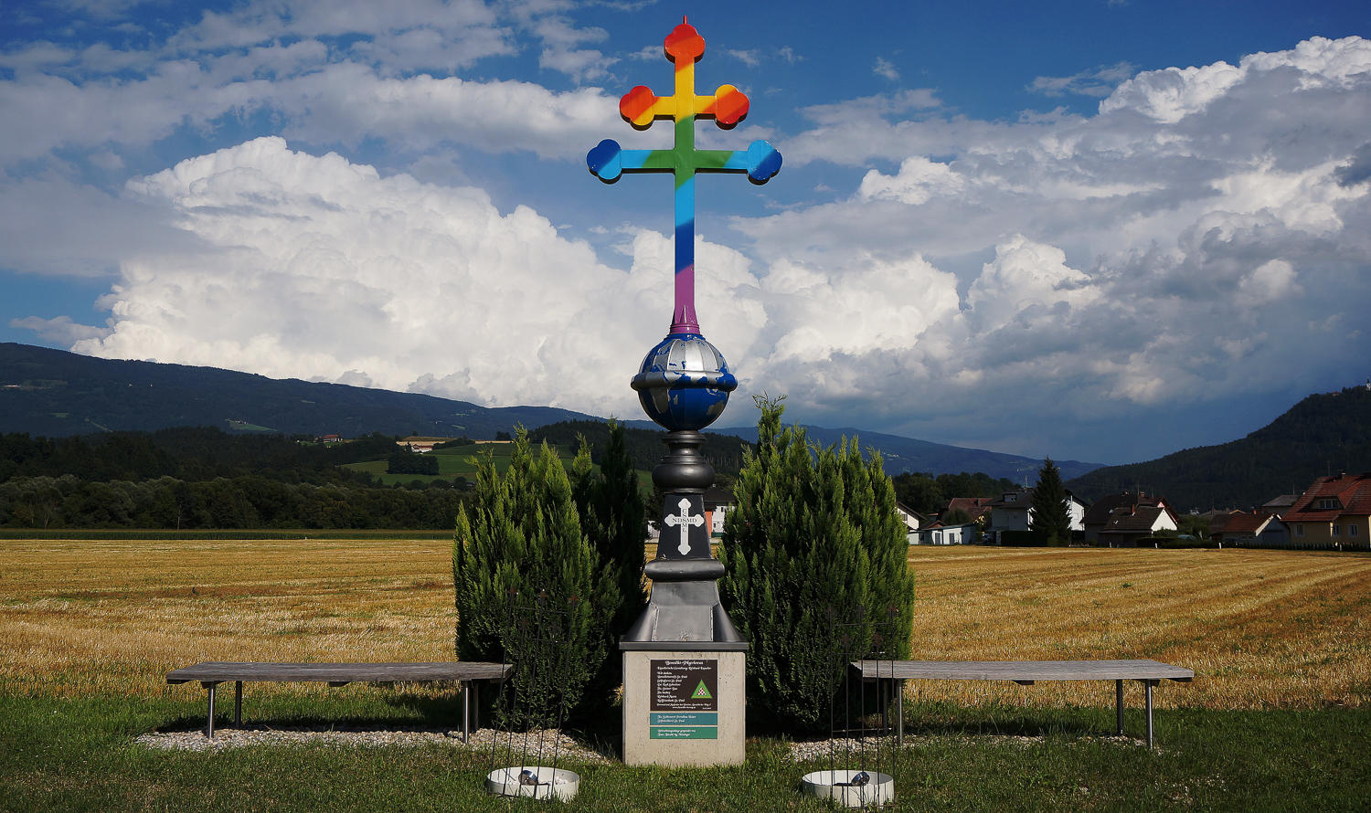 Benedikt Pilgrim cross, municipality Sankt Paul im Lavanttal, Carinthia, Austria, EU